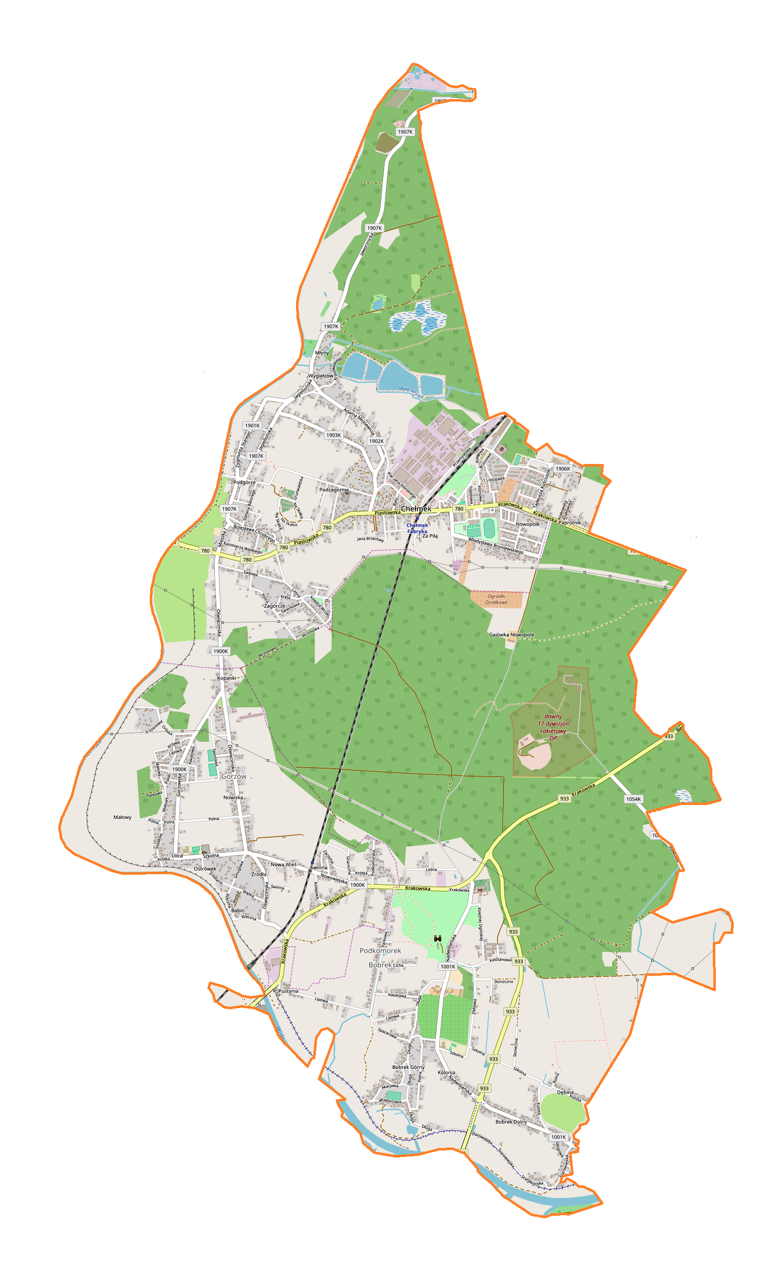 Location map